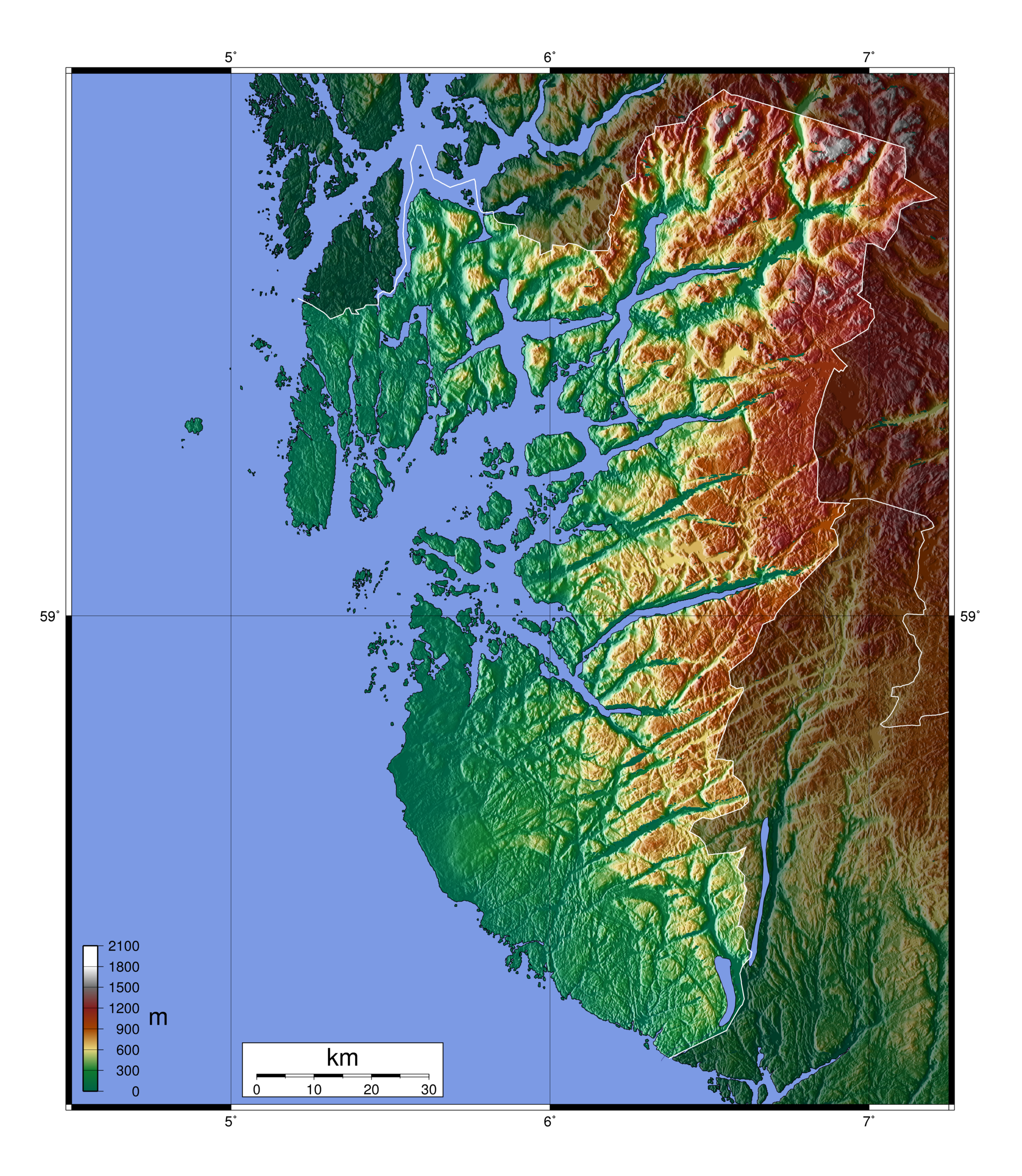 Topography of Rogaland county, Norway